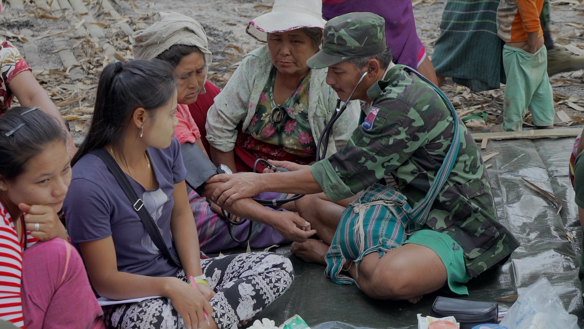 KNLA medic Saw Shwe Maung treats displaced civilians in Kayin State.